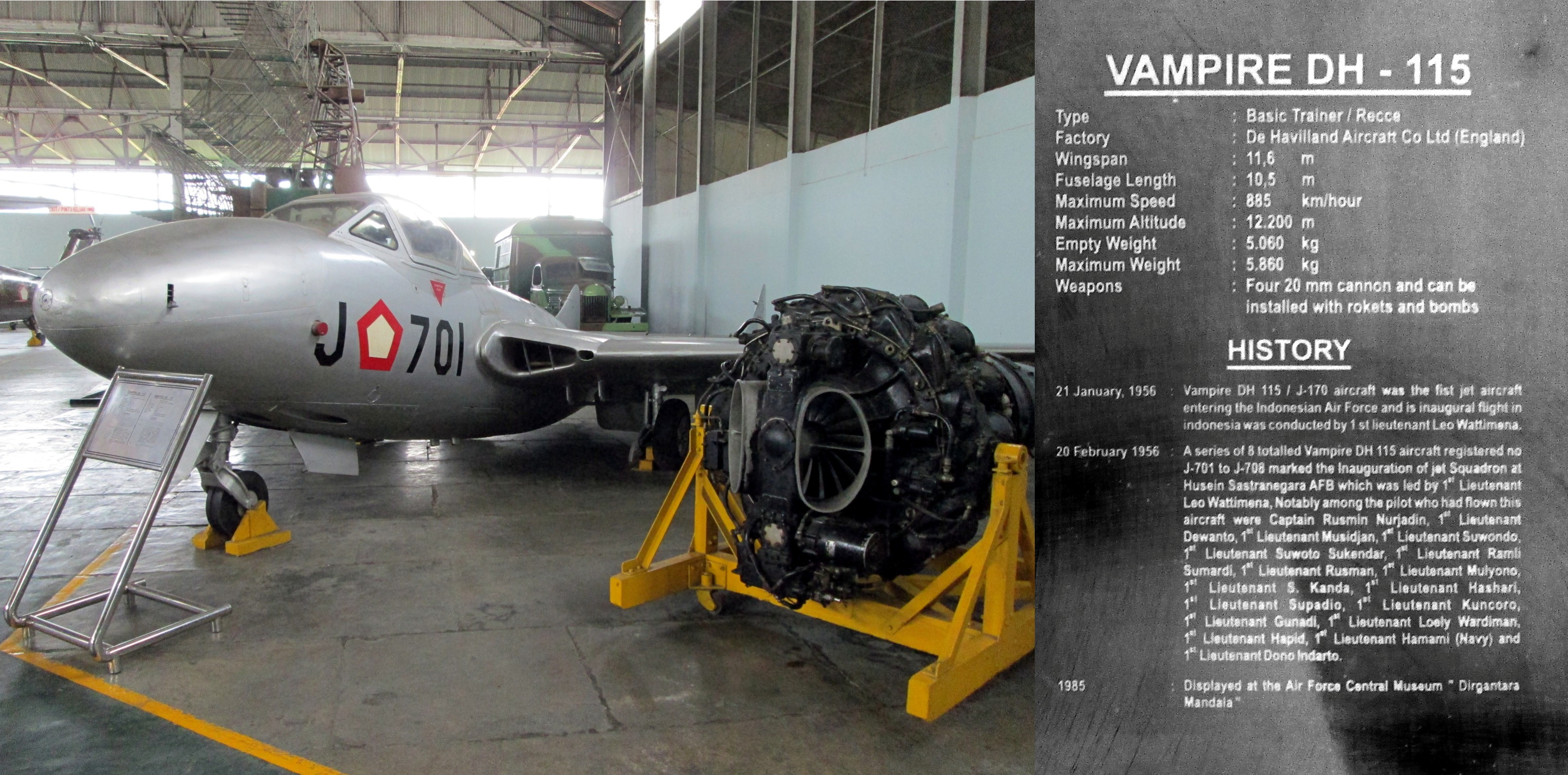 Two seat Vampire on Display in Yogyakarta, Indonesia